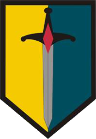 U.S. Army's w:1st Maneuver Enhancement Brigade shoulder sleeve insignia